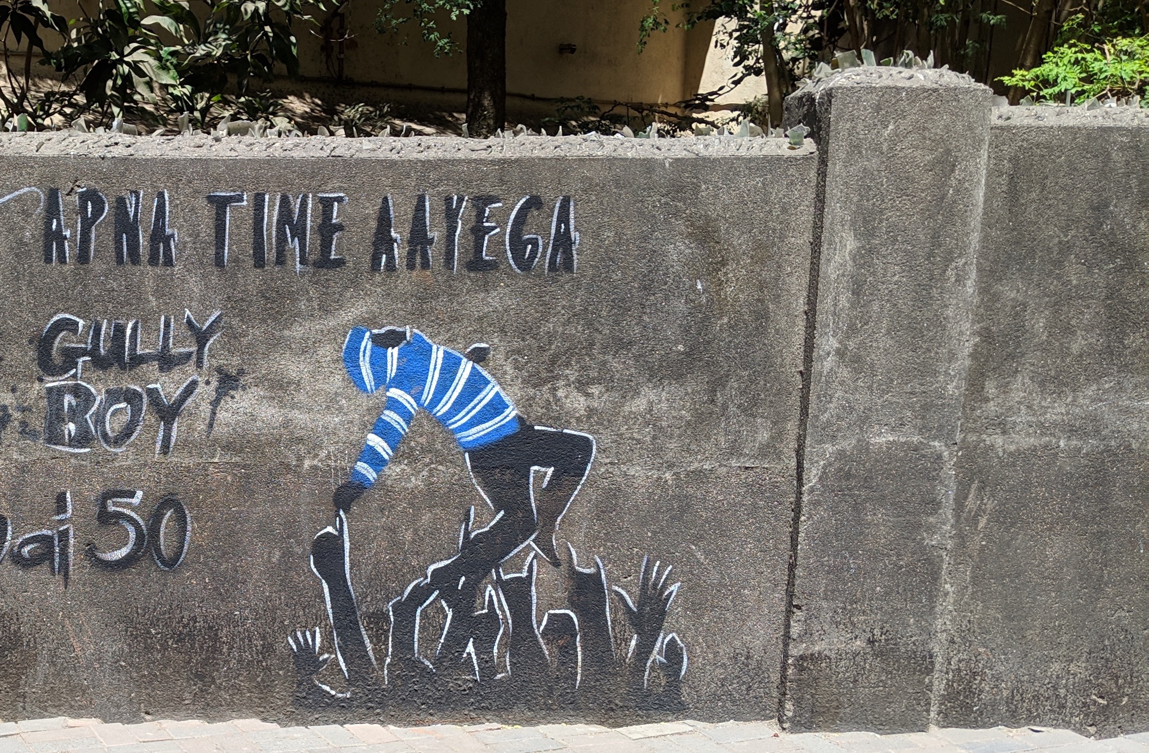 Gully Boy film, Mumbai. Apna Time Ayyega (My time will come)